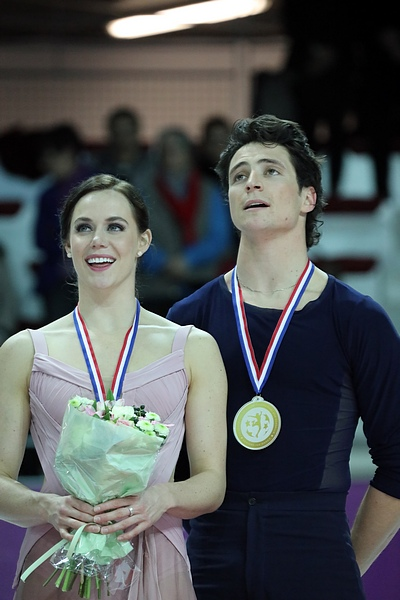 Tessa Virtue and Scott Moir at the 2016 Grand Prix Final